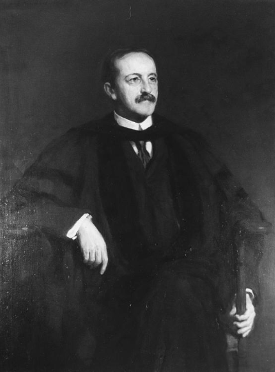 Theophill Mitchell Prudden Artist William Sergeant Kendall, 1869 - 1938 Sitter Theophill Mitchell Prudden, 1849 - 1924 Date 1909 Type Painting Medium Oil on canvas Dimensions 128.4 x 99.2cm (50 9/16 x 39 1/16") Credit Line Current Owner: Columbia University, Art Properties Website: Object number COO.444 CU Data Source Catalog of American Portraits See more items in Catalog of American Portraits